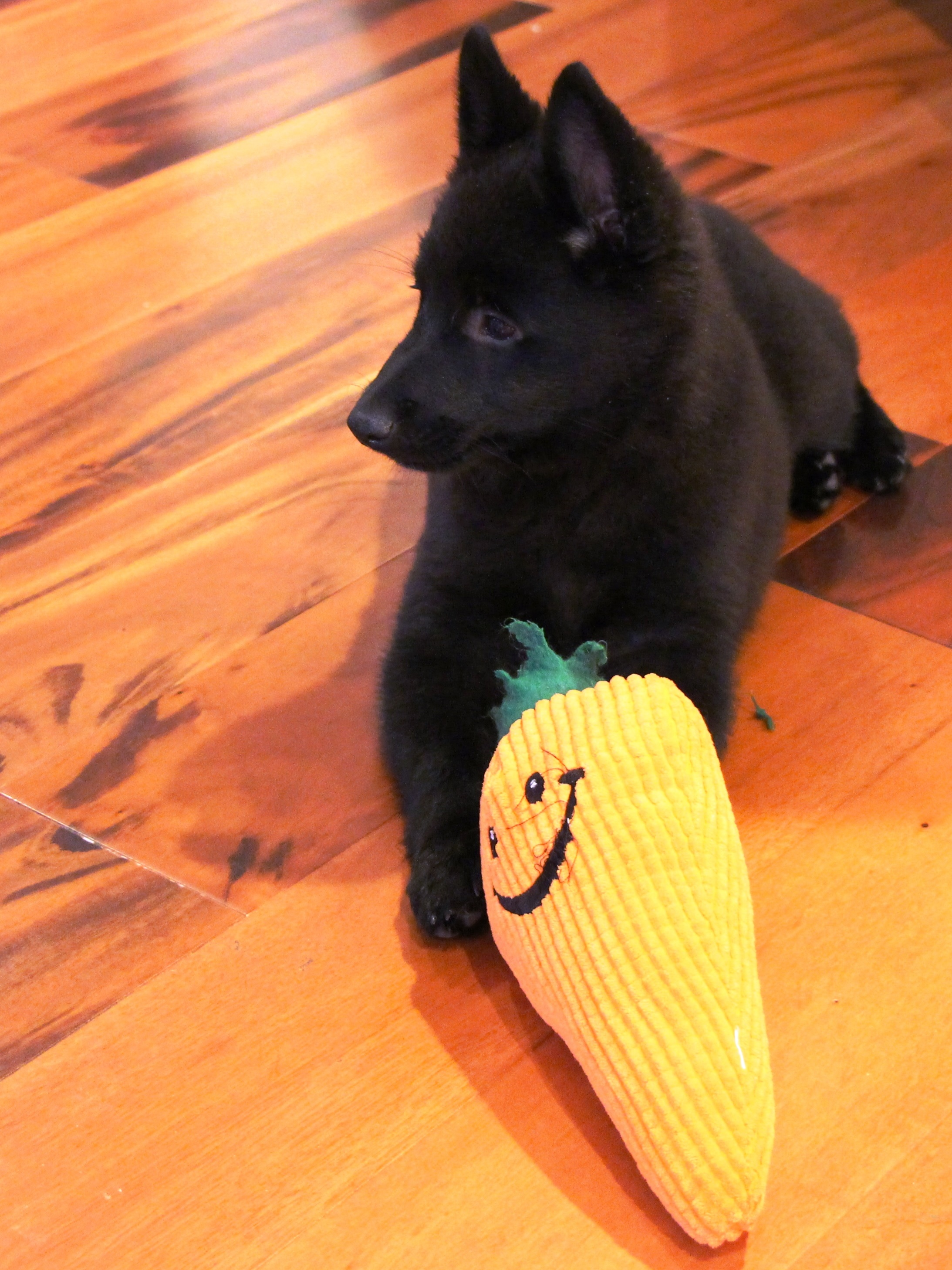 Image of a female Schipperke puppy at 12 weeks of age.